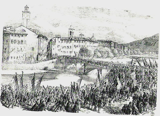 Inhabitants of the County of Nice of Nice going to the poll of the annexion in1860.